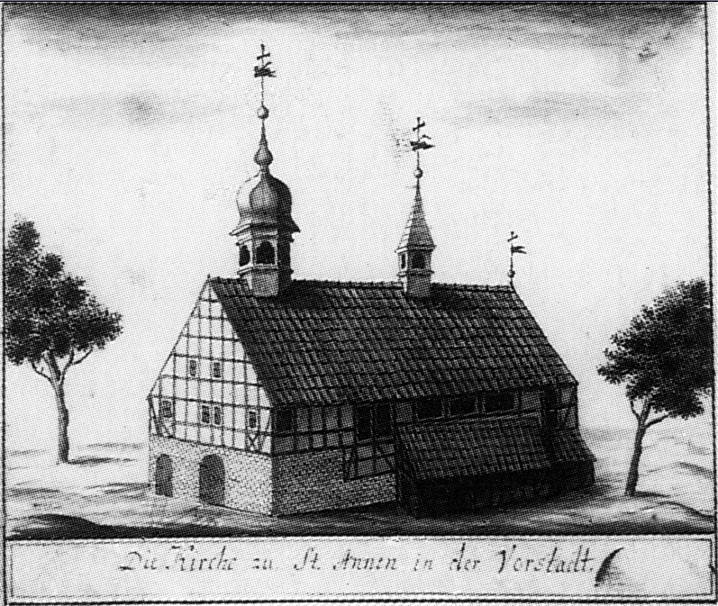 Old St. Annen Church on the Johann Heinrich Amelung picture from 1775